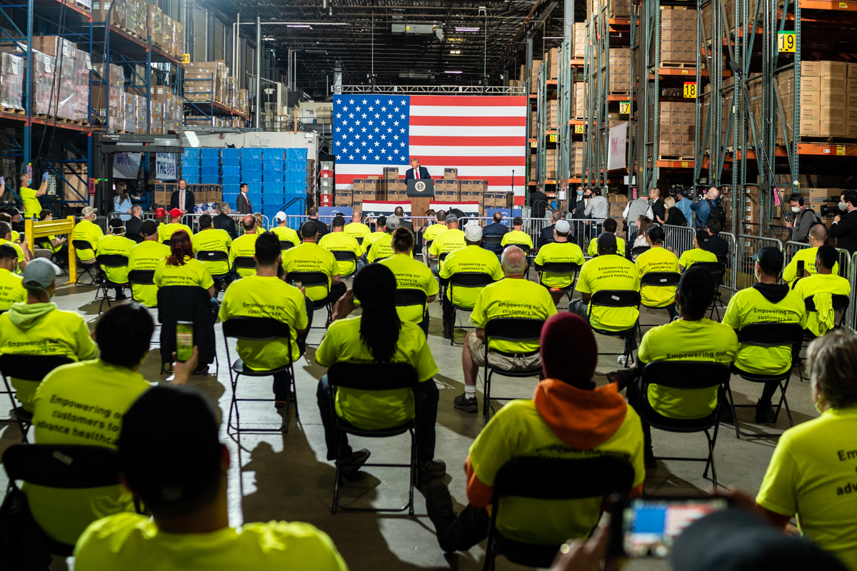 President Donald J. Trump delivers remarks Thursday, May 14, 2020, at Owens & Minor Inc. Distribution Center in Allentown, Pa.. (Official White House Photo by Shealah Craighead)